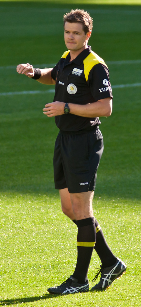 Chris Beath refereeing a 2010 A-League match.